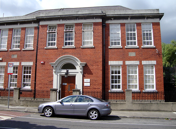 Photograph taken by me on 12 August 2009 of the former Jewish school on Bloomfield Avenue, Portobello, Dublin. Hohenloh + 15:29, 10 September 2009 (UTC)